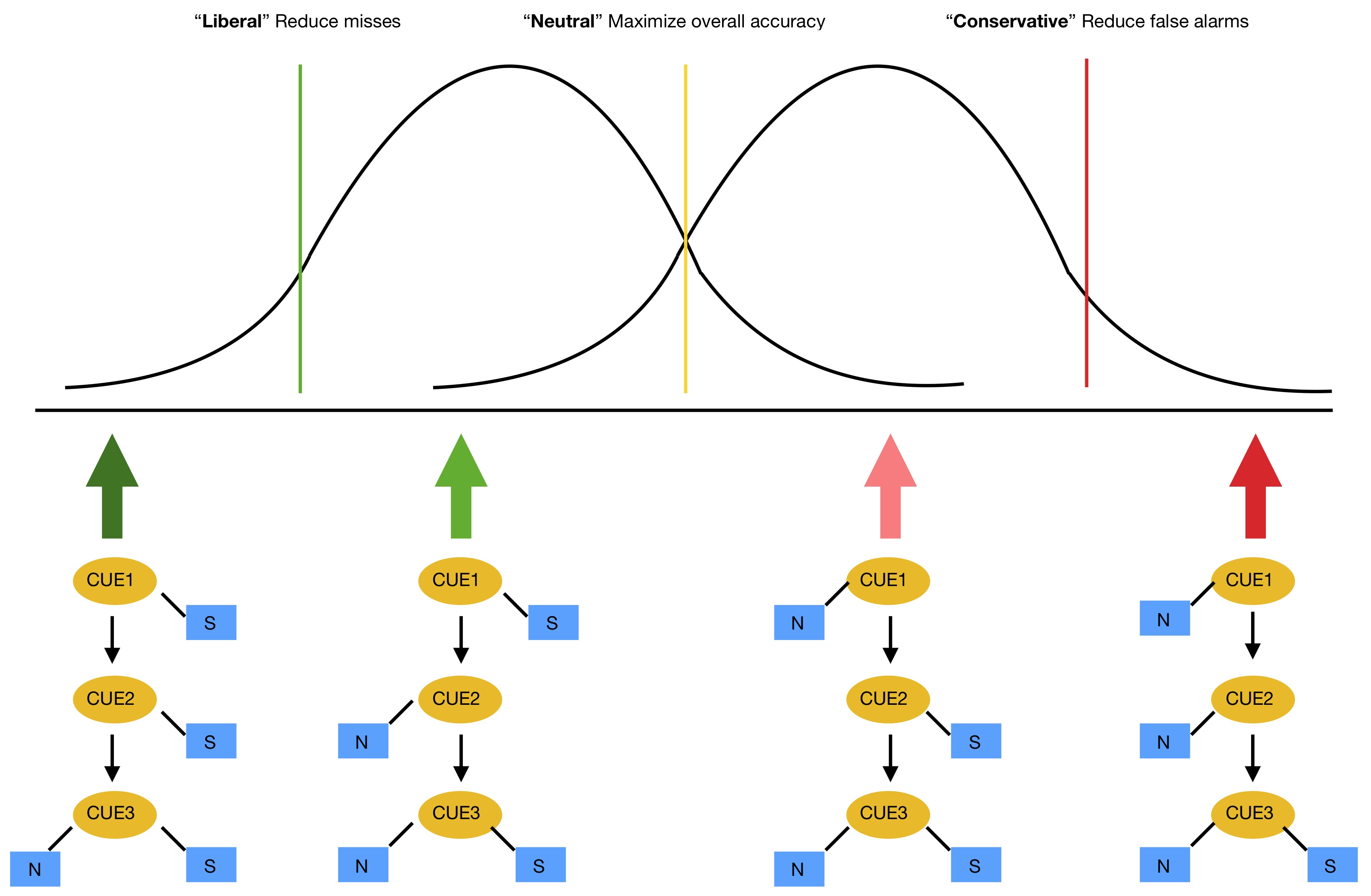 Illustration about advanced application of Fast-and-frugal trees. Optimization of the process.